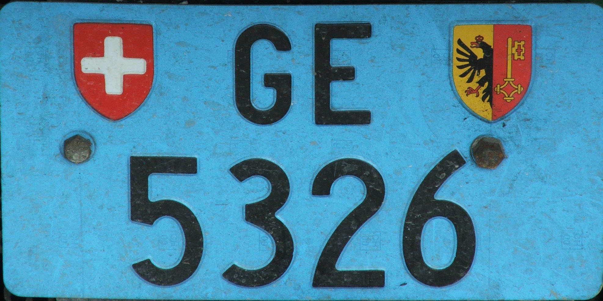 Vehicle licence plate for heavy utilitary vehicles from Switzerland as seen in 2007. "GE" stands for Geneva canton.